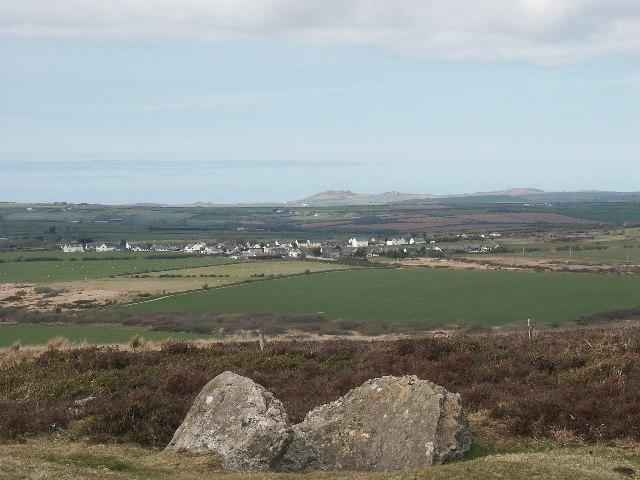 Hayscastle Cross. Photo taken from Plumstone mountain. The Preseli Hills can just be seen in the distance.